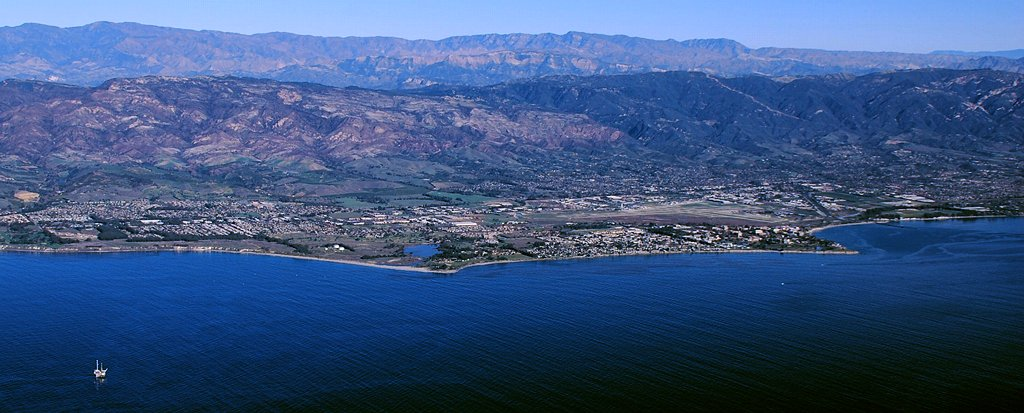 Aerial photo of the Goleta area, Santa Barbara County, California — from offshore. From the left: Ellwood area, Coal Oil Point and Devereux Slough area, Isla Vista and UCSB to Campus Point, Santa Barbara Airport behind Isla Vista and UCSB with residential Goleta up into the hillside beyond and downtown Goleta at the left edge directly beyond UCSB near Hwy.101 at the base of the hills, and on the shoreline beyond Campus Point is More Mesa. At the bottom left corner offshore is Oil Platform Holly. Santa Ynez Mountains are in backround.